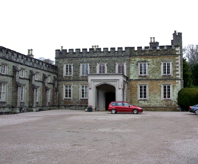 Main Entrance of Port Eliot, Cornwall. The house is the seat of the Earl of St Germans and incorporates the surviving buildings of the ancient Priory of St Germans. The house has been open to the public for a few weeks.